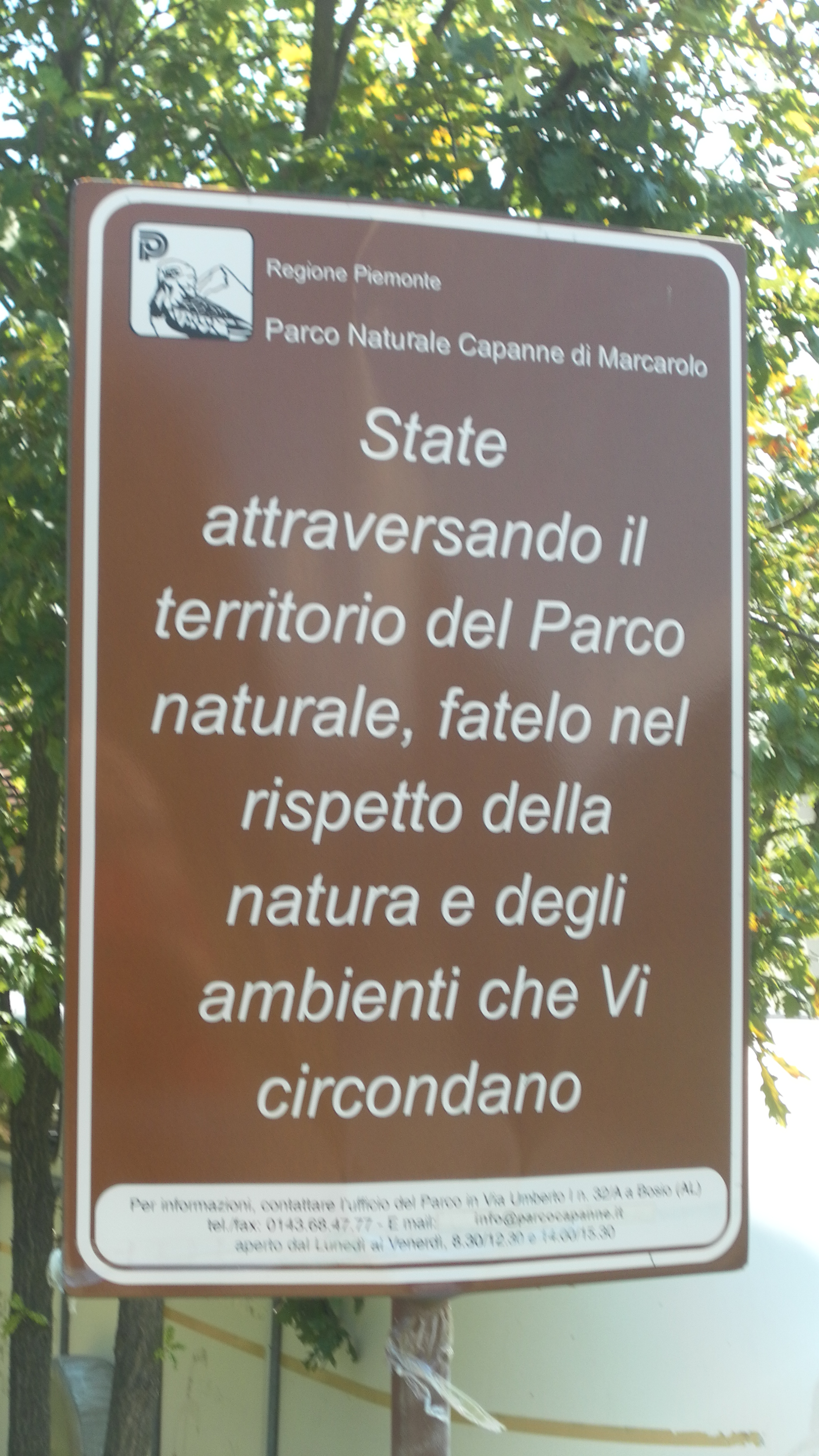 Capanne di Marcarolo, Bosio (AL)